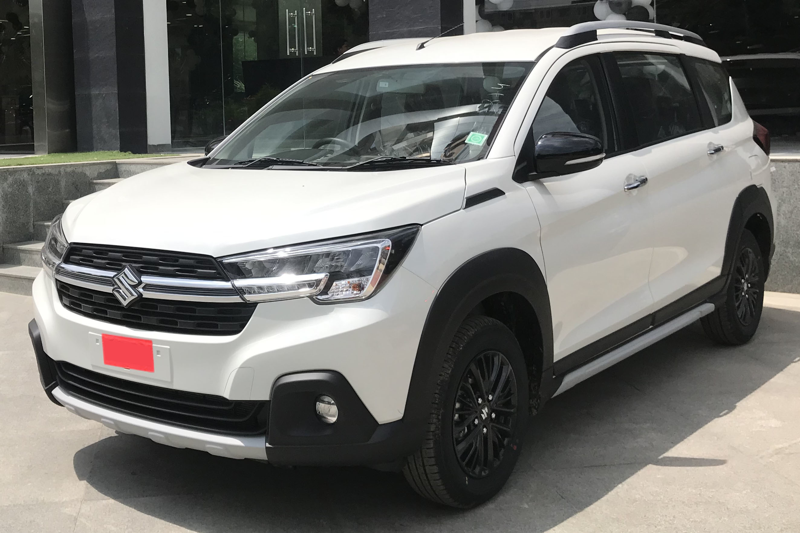 Maruti Suzuki XL6 (front)